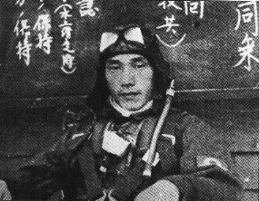 US Naval Institute photograph of Nobuo Fujita.